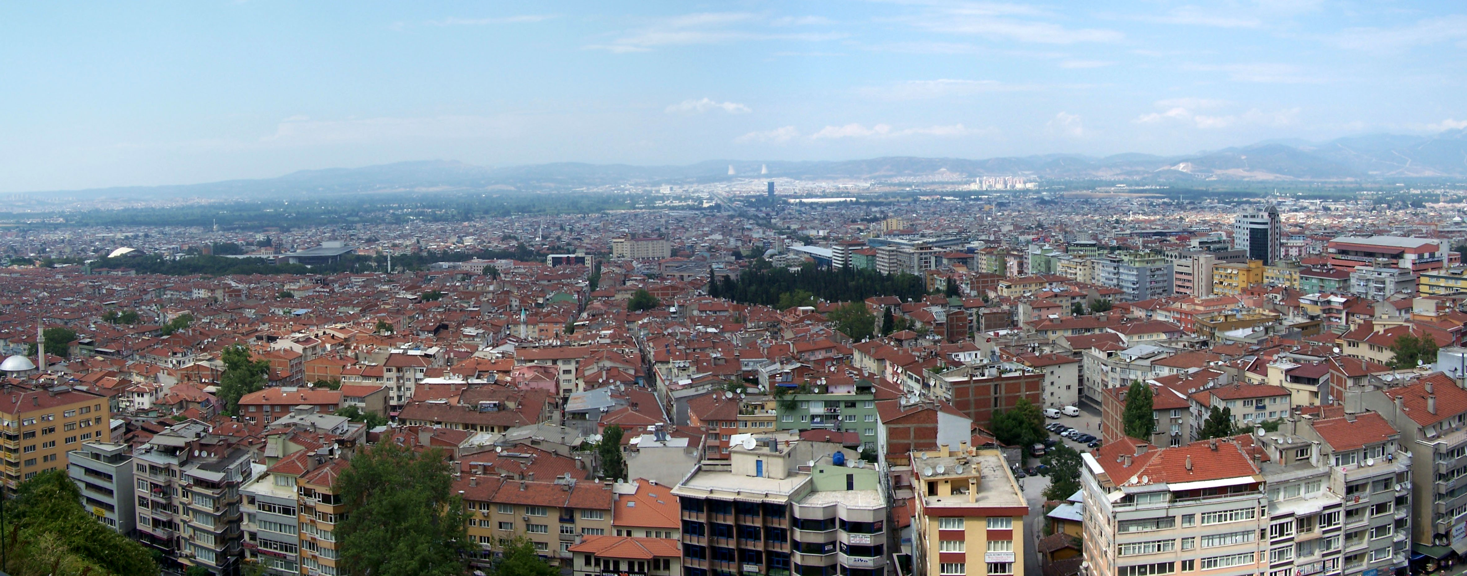 Part of Bursa seen from the hill with the clock tower